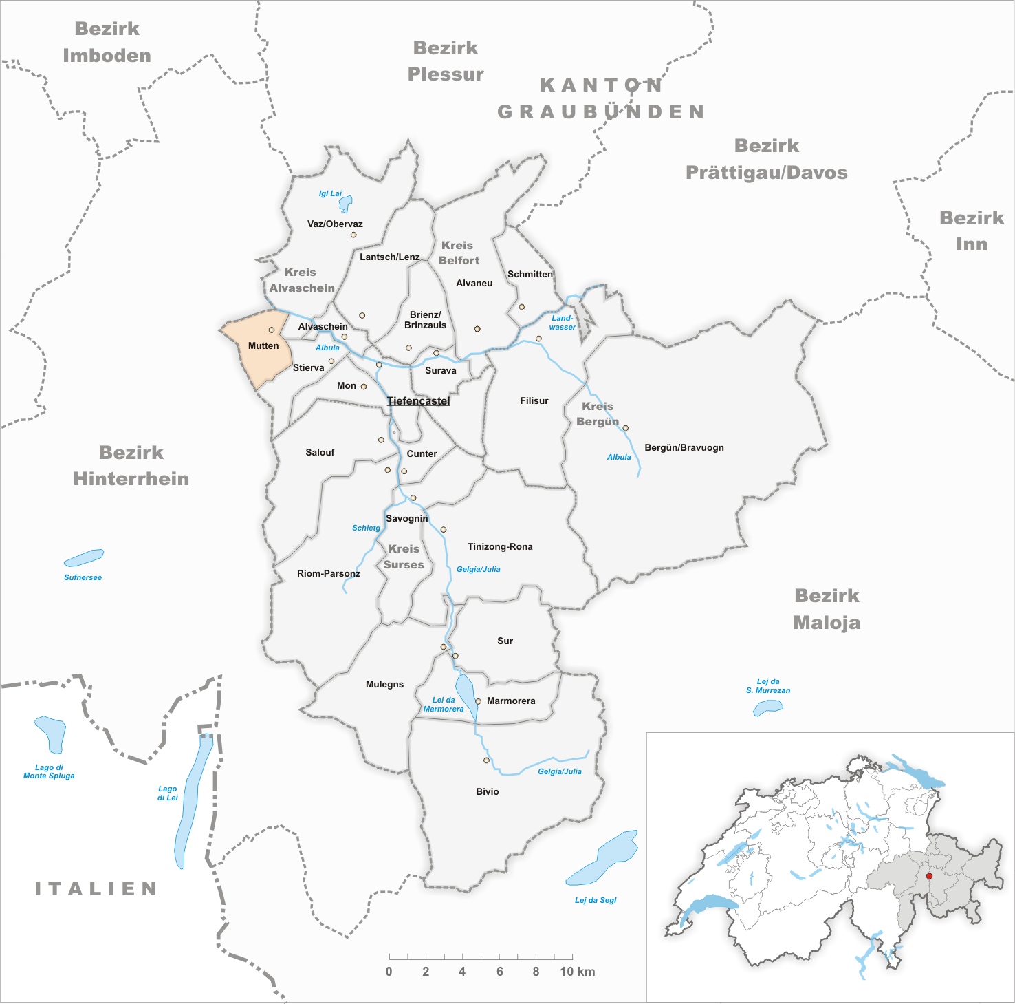 Municipality Mutten